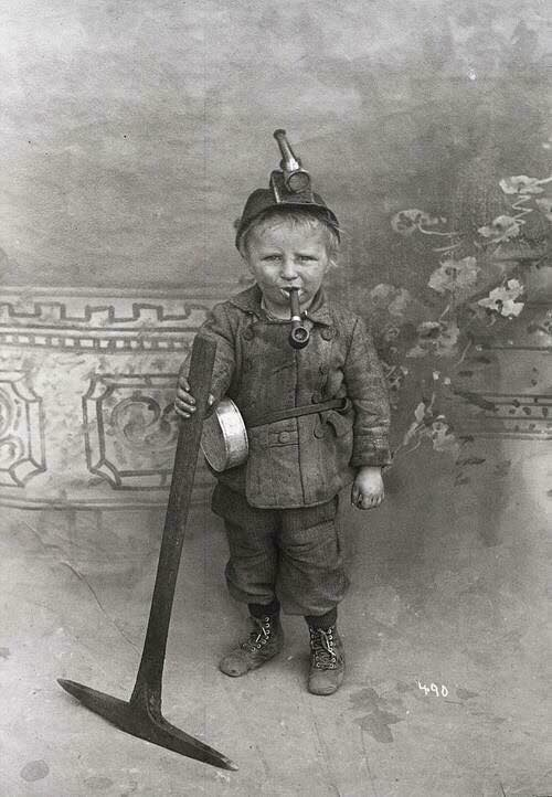 Unidentified child, probably at Castle Gate. Finlander--9 years old. He worked in the Castle Gate Mine near the turn of the century. He carried explosives and searched for "Bad Air" and cleaned entries from animal debris and loose coal.